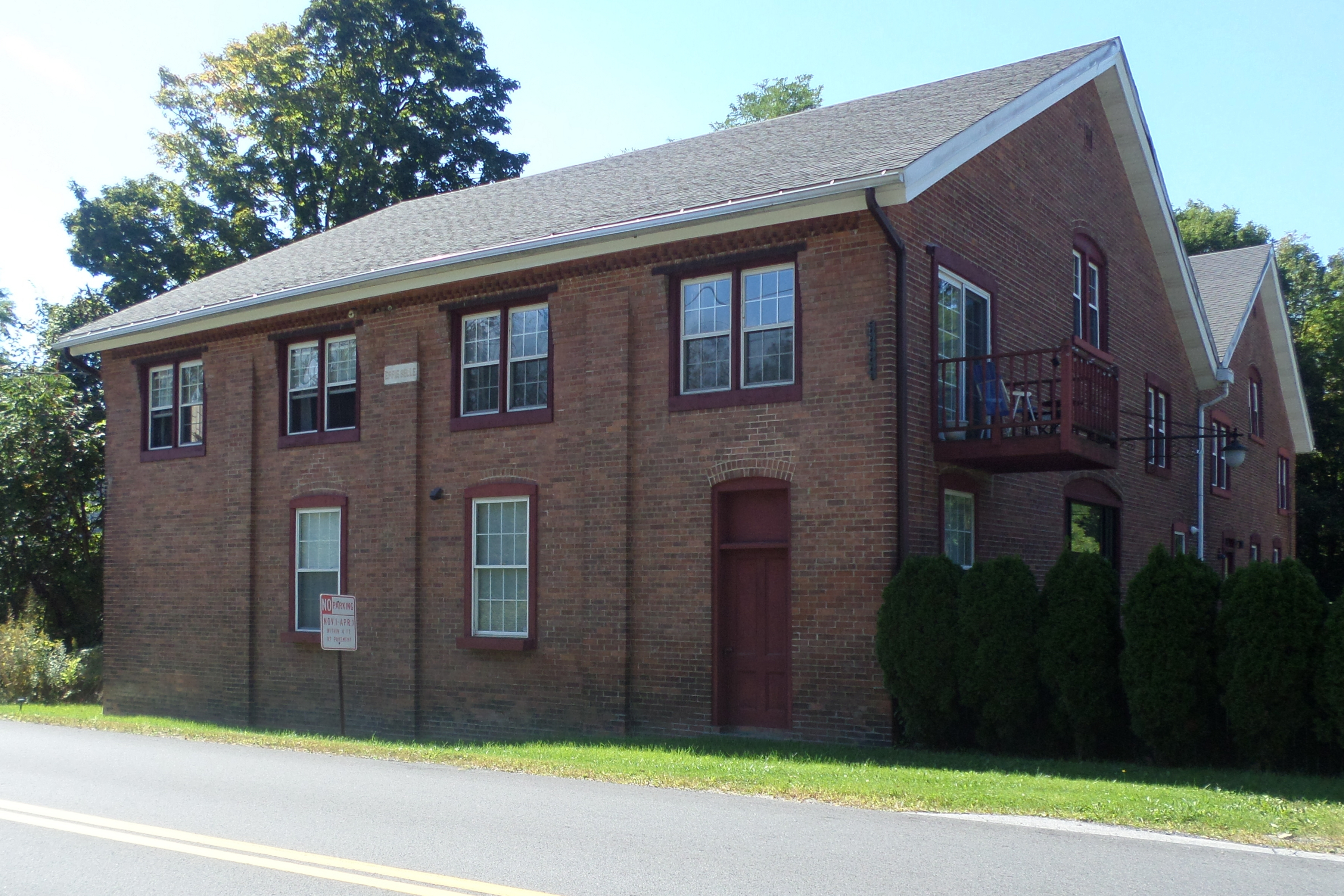 Former powerhouse of the Kaydeross Railroad (Ballston Terminal Railroad) near Factory Village, New York. Note the plaque between the pairs of second floor windows reading "Effie Belle", an early engine